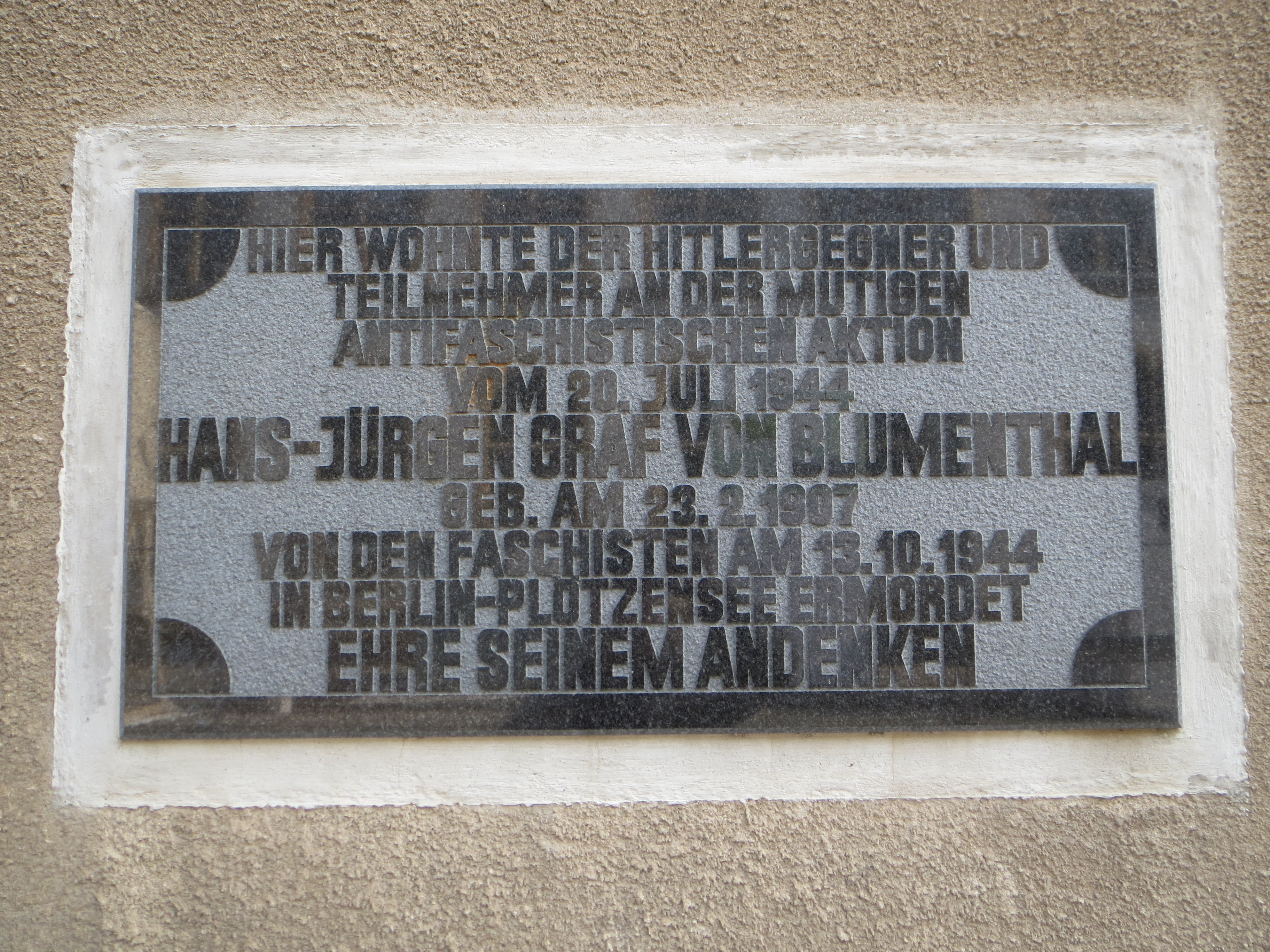 Schlossstrasse 5 Plaque commemorating Hans-Jürgen Graf von Blumenthal